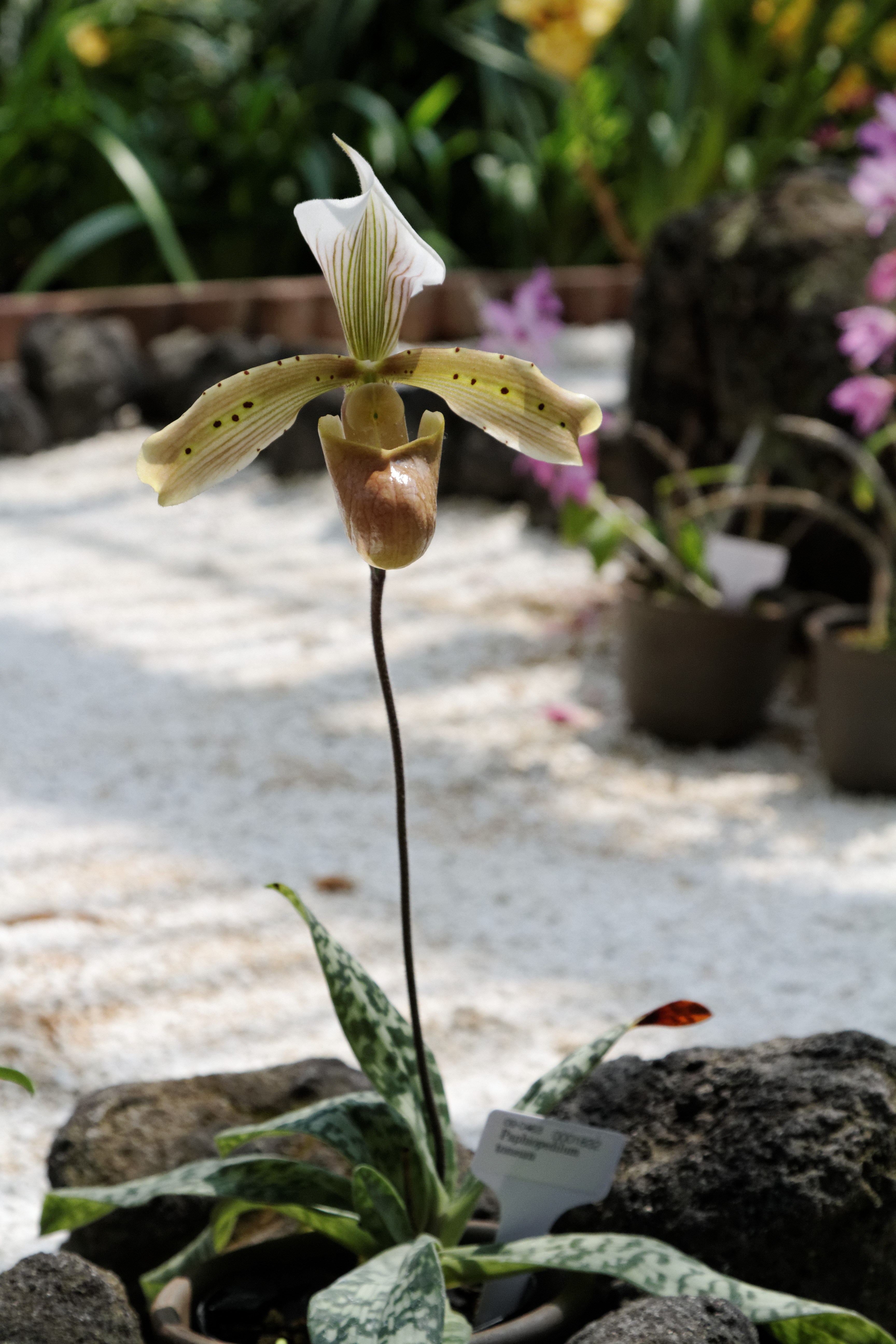 Paphiopedilum tonsum